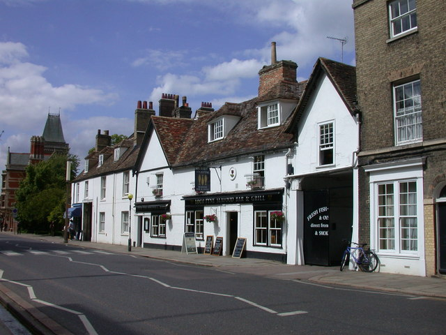 Loch Fyne Seafood Bar & Grill This used to be The Little Rose pub; it was converted to a restaurant in 1999.